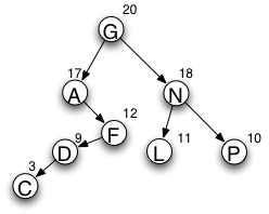 (author: Kenneth Elliott,source: myself,URL: NA, tags:)